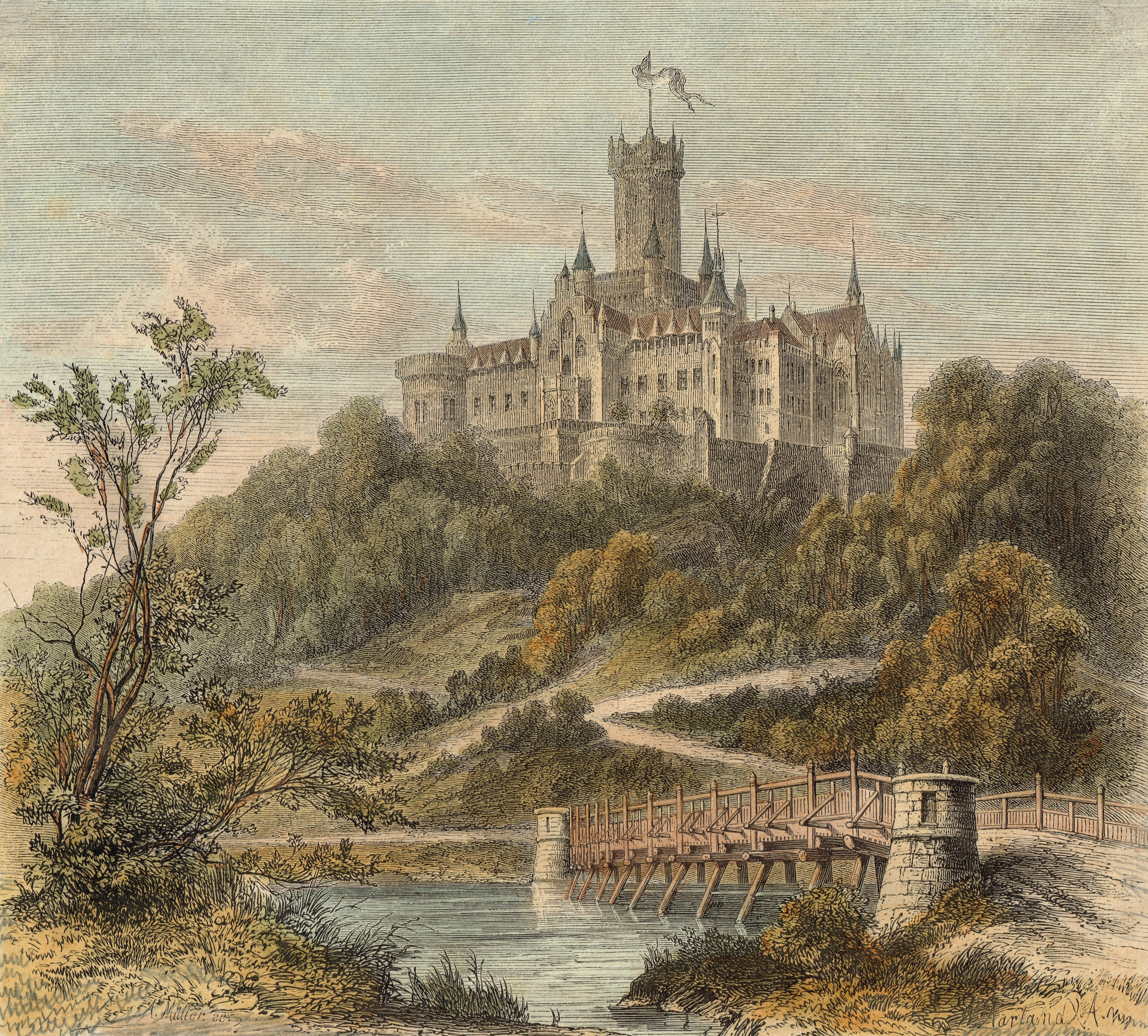 Marienburg Castle and the bridge near Nordstemmen about 1865.